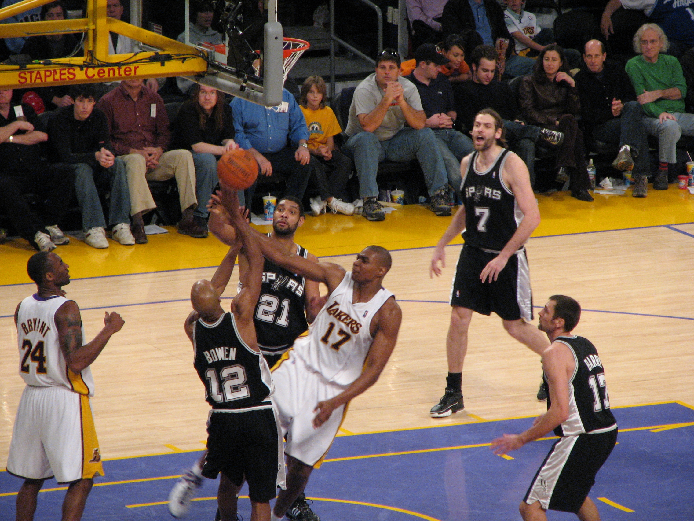 Bruce Bowen of San Antonio Spurs